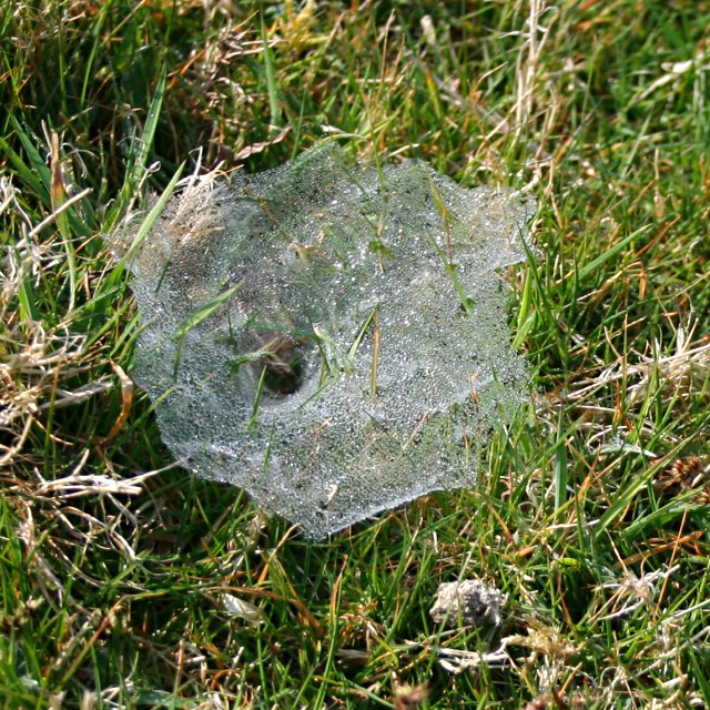 Spider Web in the Grass The grass at the top of the hill at Cadson fort was covered in these little spider webs which, being covered in dew were very plain to see. They lead down into a funnel at the centre of the web where presumably a spider waits for visitors.